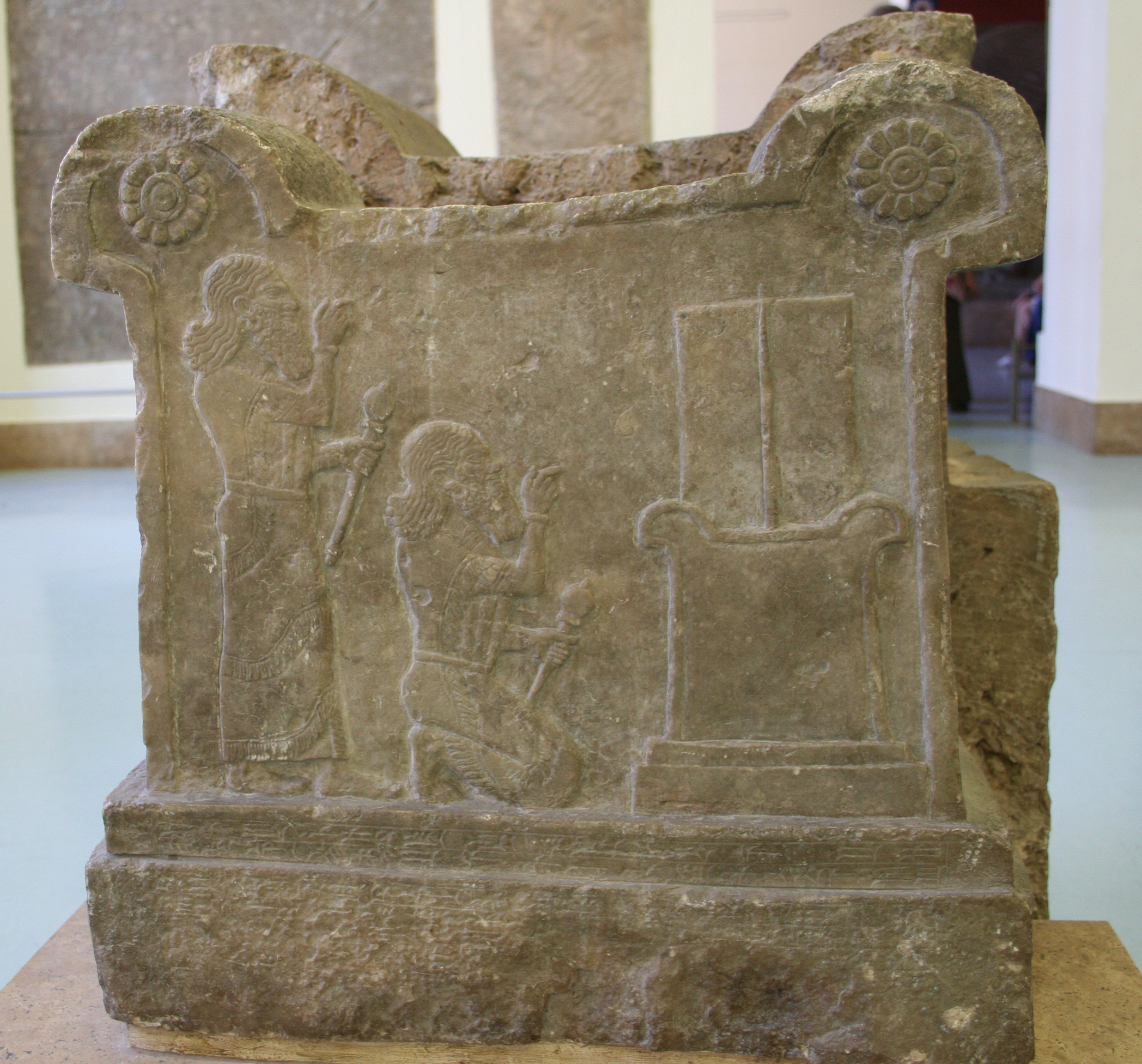 Vorderasiatisches Museum (Near East Museum), Berlin Altar with king Tukulti-Ninurta I. Found in the Ishtar Temple of Assur (Qalaat Sherqat).